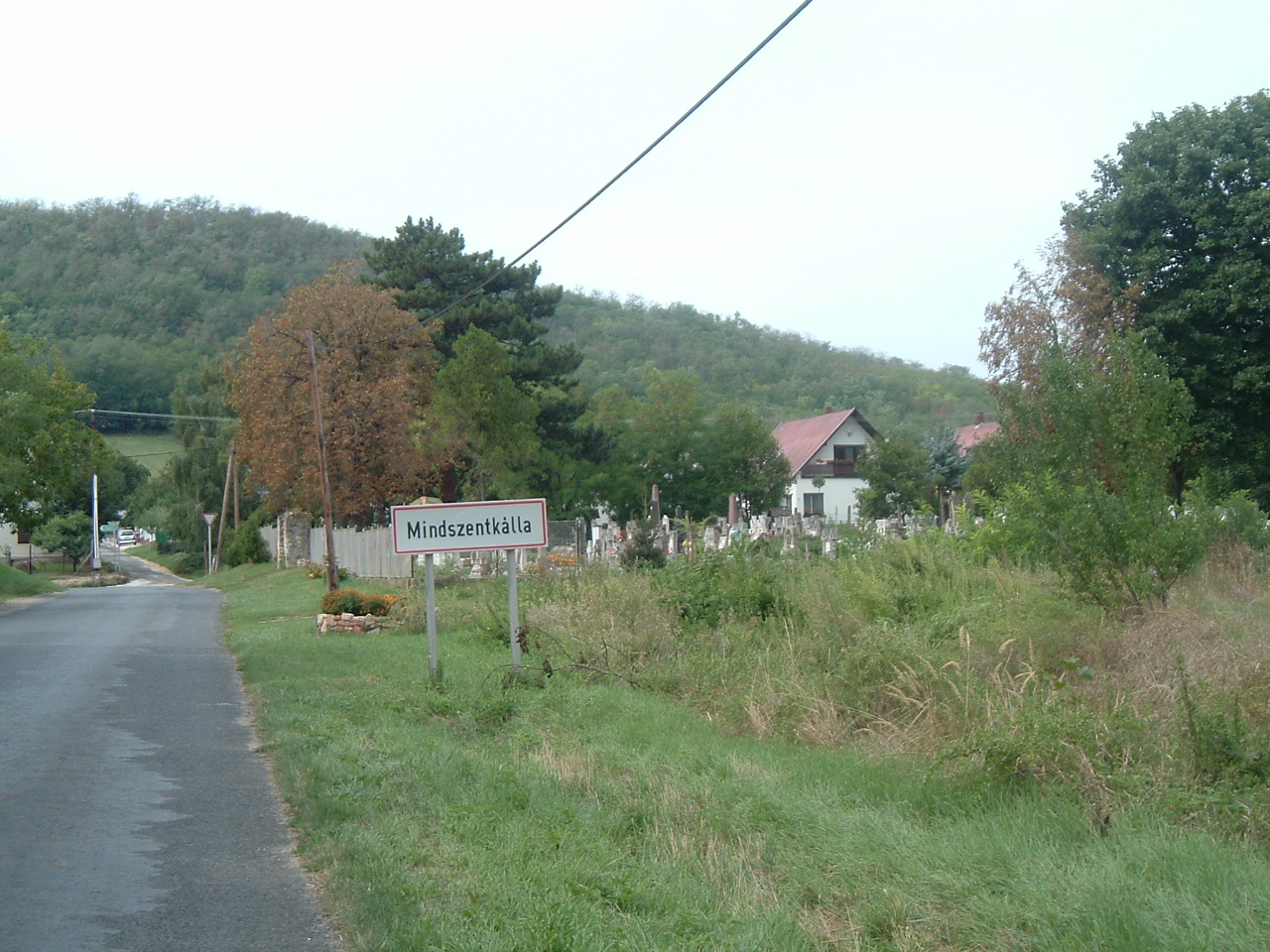 Mindszentkálla